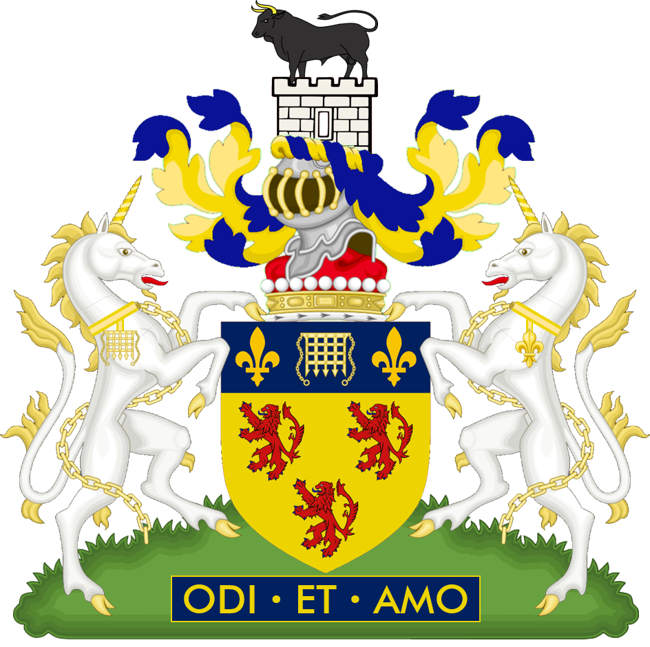 The armorial achievement of The Viscount Norwich